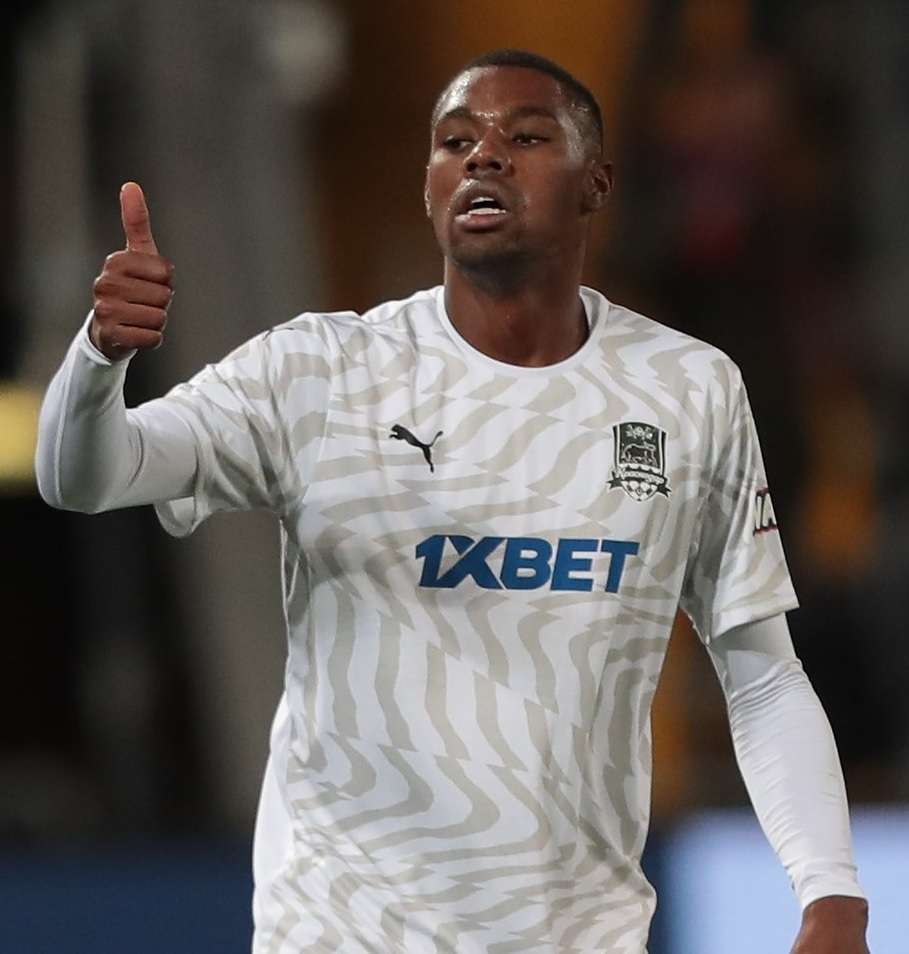 Kaio Pantaleão with FC Krasnodar in a game against PFC CSKA Moscow.